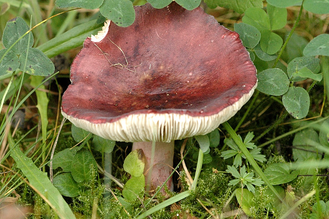 Russula fuscorubroides from Commanster, Belgium. The determination of the species shown in this picture has been verified.